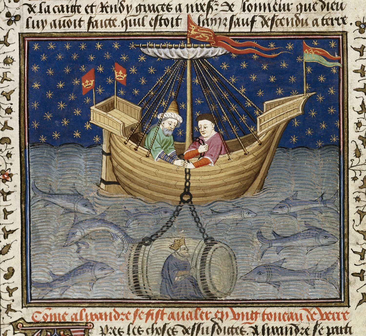 Alexander explores the sea in a submarine; detail of a miniature from BL Royal MS 15 E vi, f. 20v (the "Talbot Shrewsbury Book"). Held and digitised by the British Library.